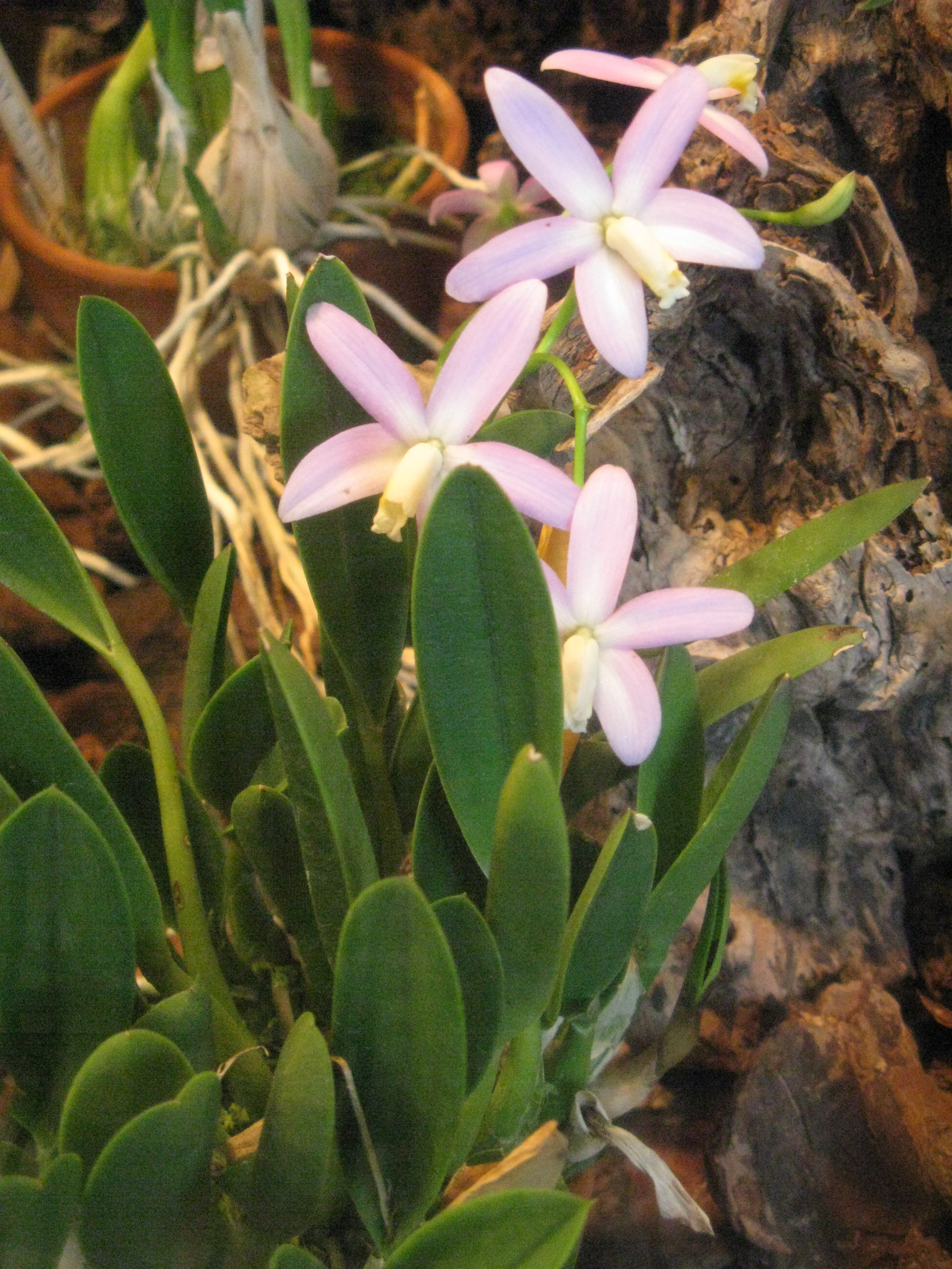 Scientific name Laelia lucasiana Place:Osaka Prefectural Flower Garden,Osaka,Japan